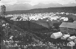 Anchorage, Alaska, July 1, 1915 "The White City"